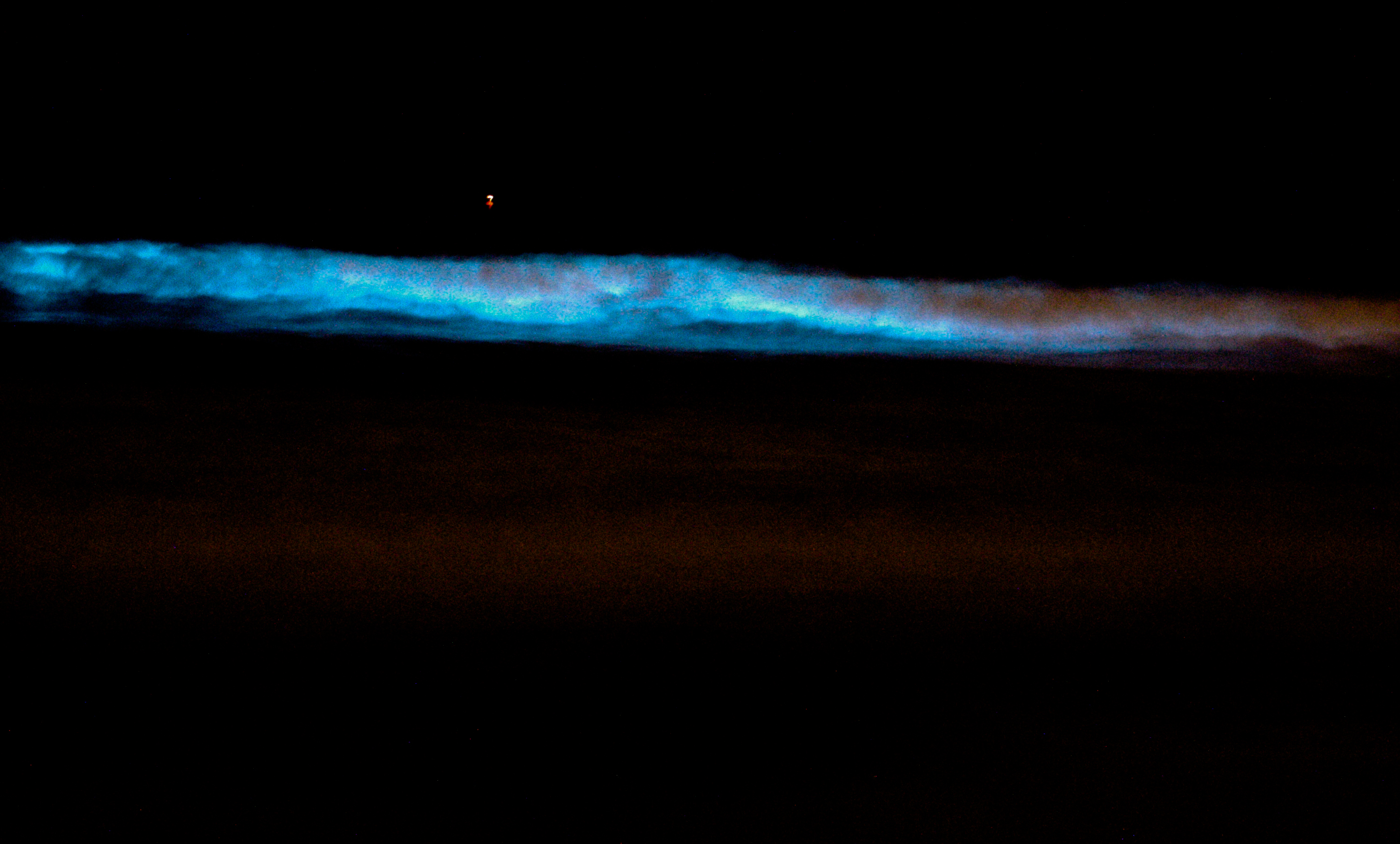 a bioluminescent dinoflagellate found in warm subtropical waters. Seen regularly off the coast of California.